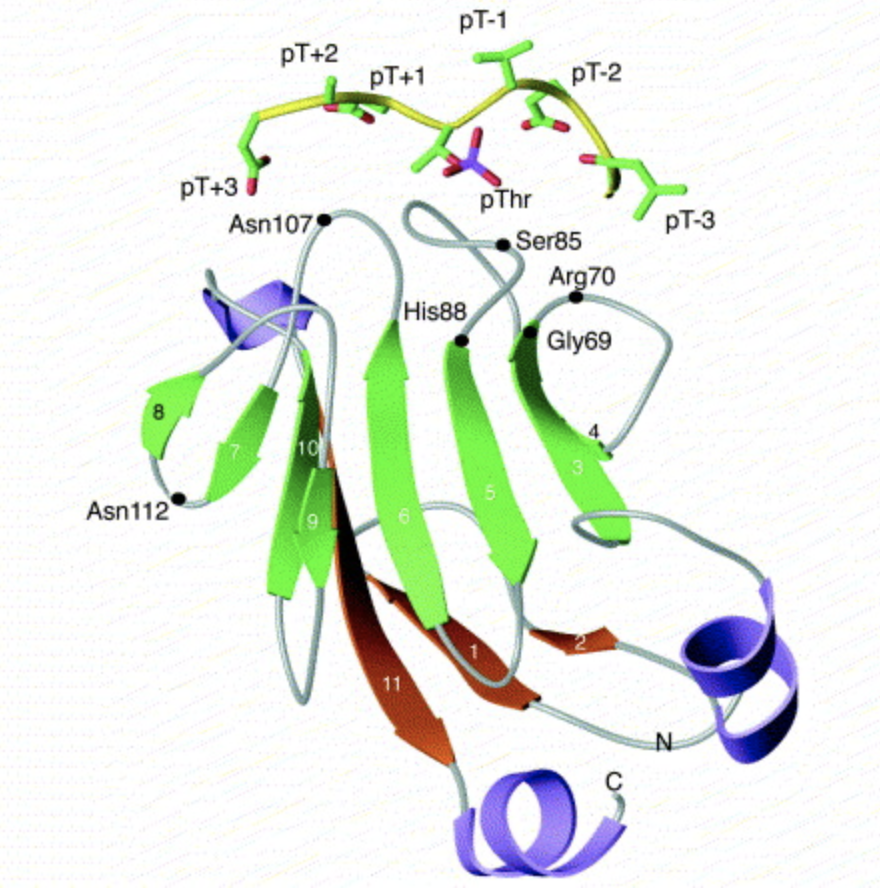 Structure of the forkhead-associted domain